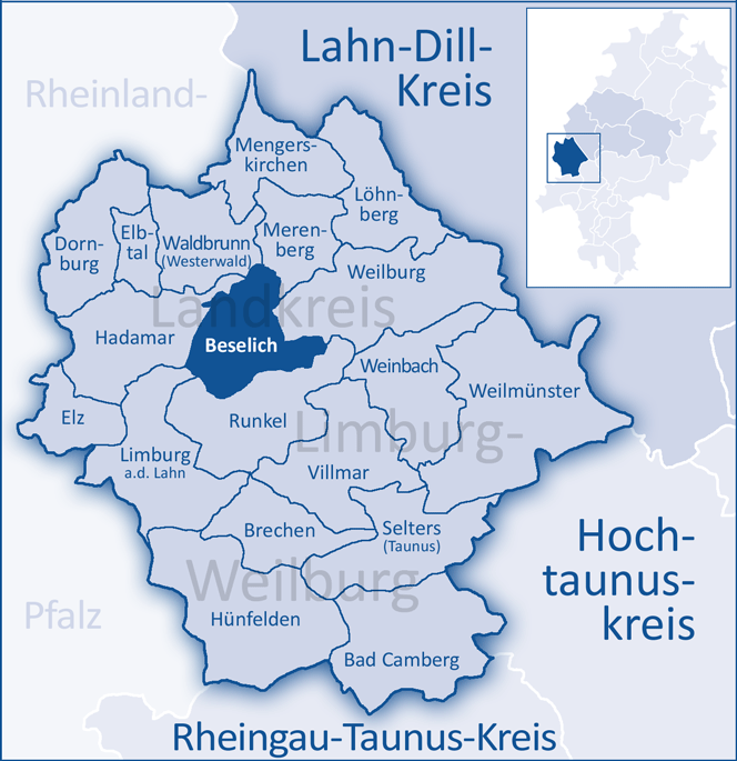 The map shows a district in the area of Limburg-Weilburg